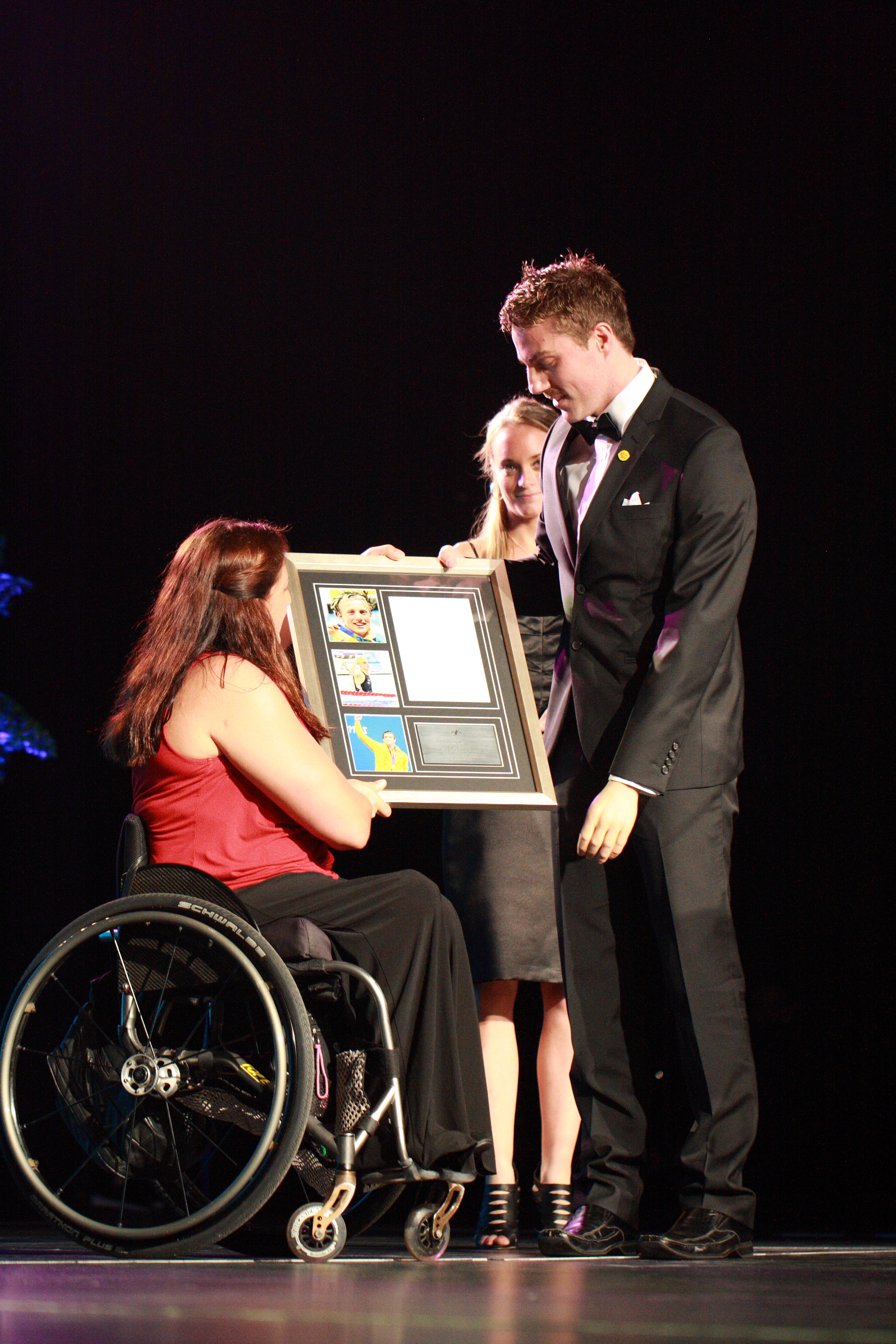 Australian Paralympian of the Year 2012 ceremony at the Hordern Pavilion, Sydney, Australia.